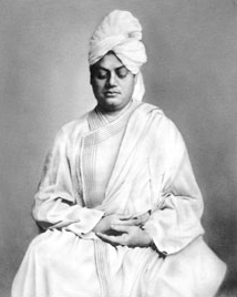 Image of Swami Vivekananda in London in 1896)